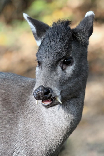 Michie's tufted deer (Elaphodus cephalophus michianus), Magdeburg zoo, 20.10.2012